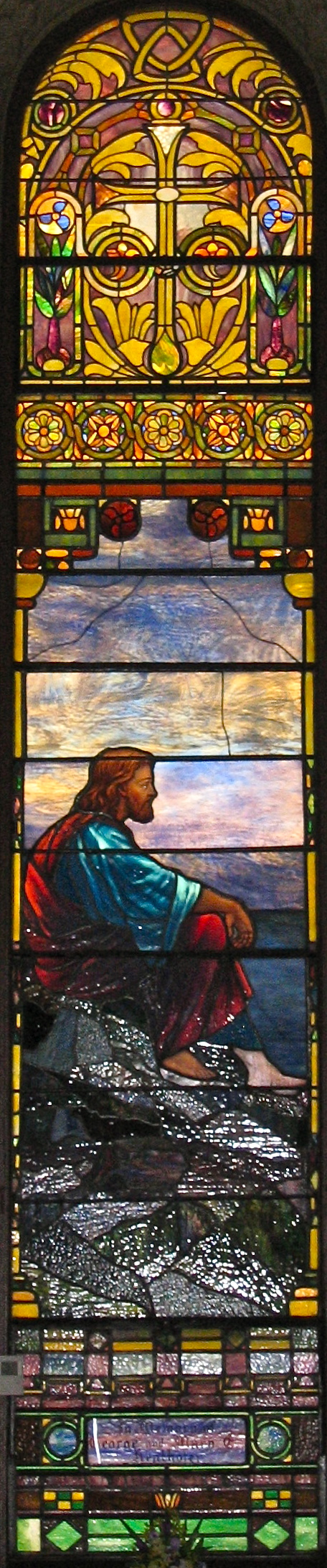 Zion Church's window "Jesus by the Sea"